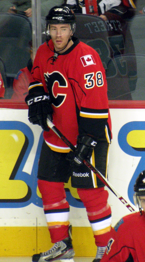 Calgary Flames forward Ben Street prior to a National Hockey League game in Calgary.